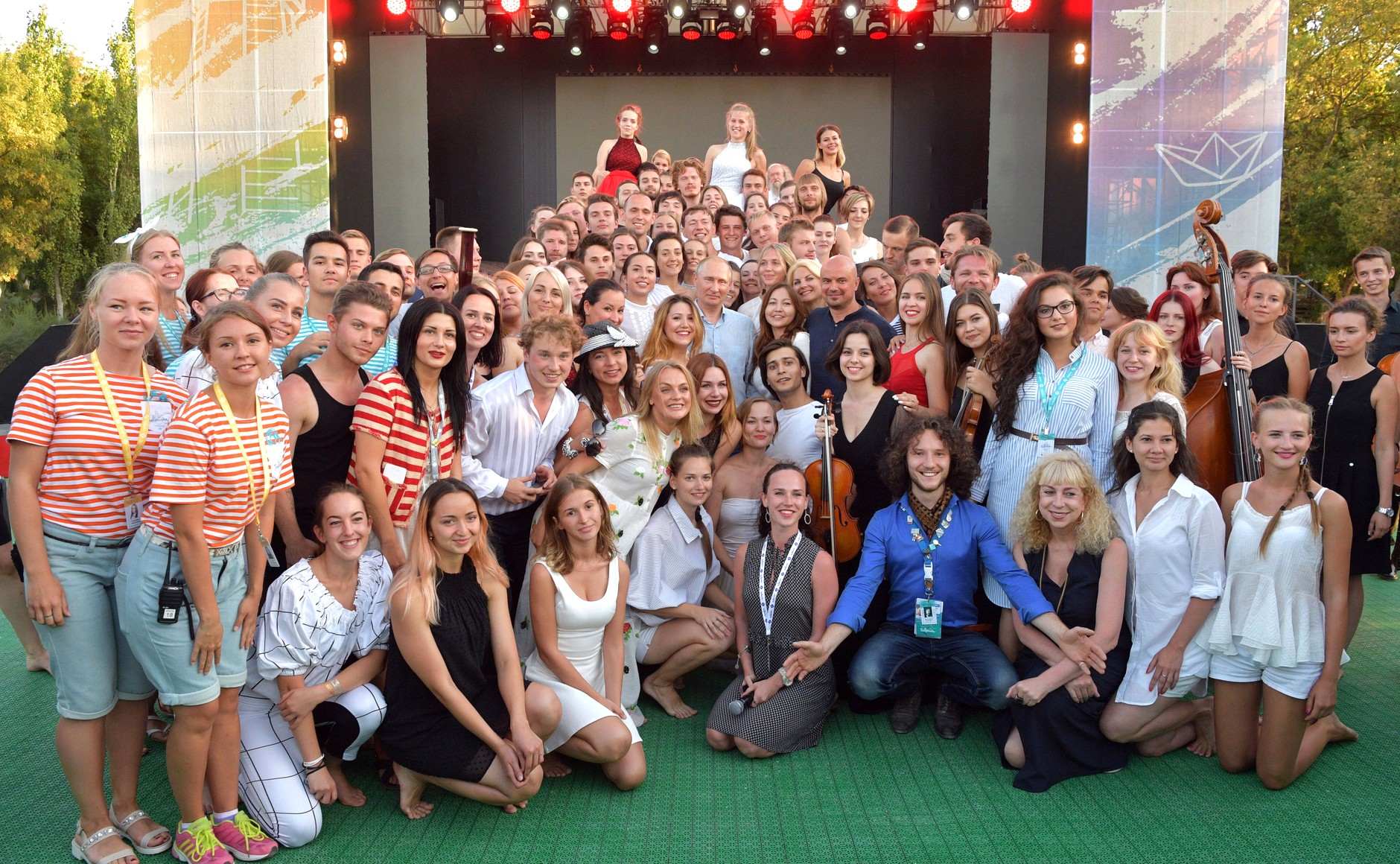 Vladimir Putin at the Tavrida National Youth Educational Forum (2017-08-20)